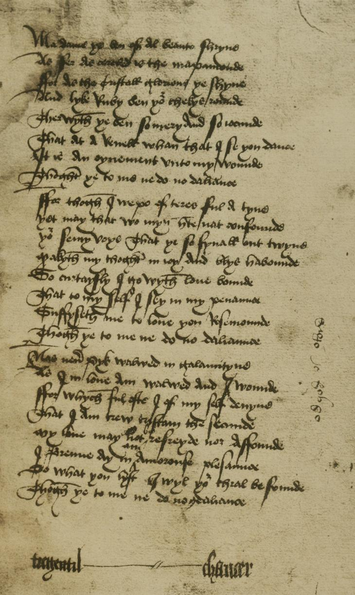 Manuscript of "A Balade to Rosamond", a poem by Geoffrey Chaucer. The writing is not by Chaucer himself but a later scribal copy. This manuscript is the only recorded copy of this text, which appears on the last page of a volume held at the Bodleian Library. The rest of the volume contains the text of Chaucer's "Troilus and Criseyde" and it is described in the Bodleian Library special collections catalogue: Rawlinson manuscripts. Underneath the poem are the words "Tregentil" and "Chaucer": "Tregentil" seems to be the name of the scribe. Shelfmark: MS Rawl. poet. 143. fol. 114r. Description confirmed by emailing the Special Collections team at the Bodleian Library